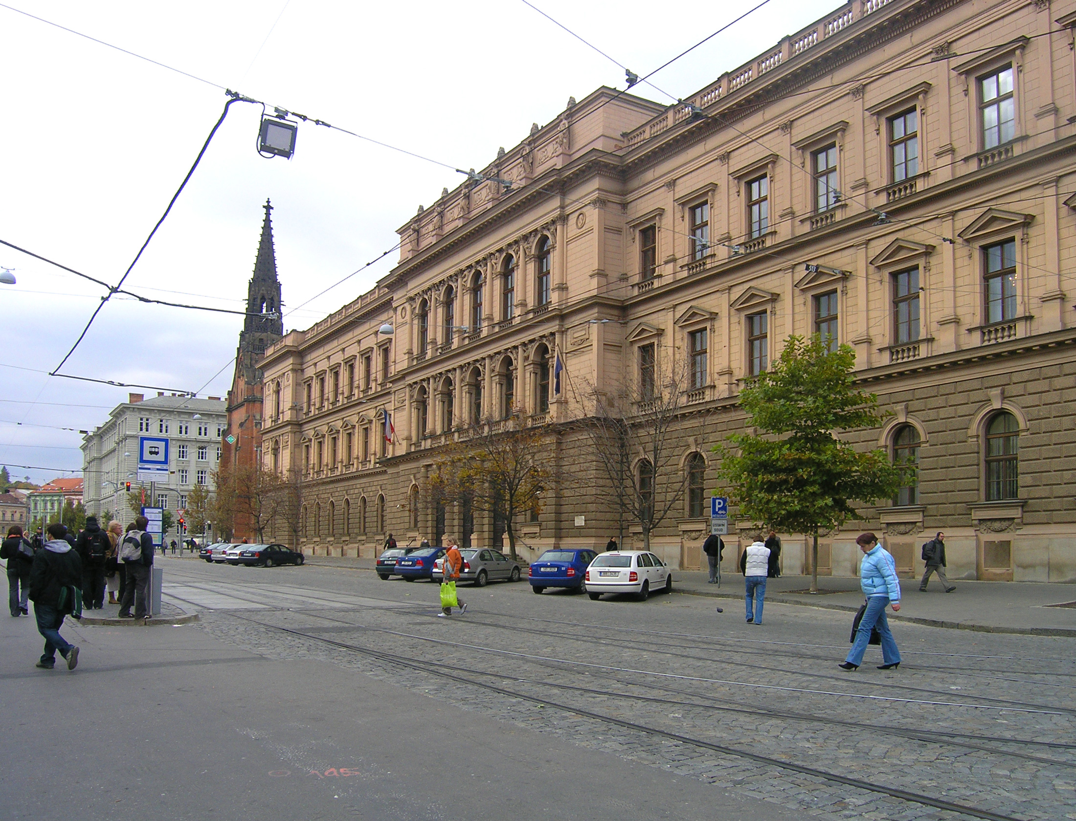 The Constitutional Court of the Czech Republic in Joštova street in Brno